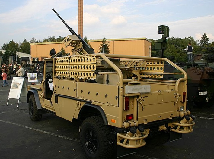 The Picture shows the SERVAL a German made LIV(SO) Light Infantry Vehicles-Special Operations.